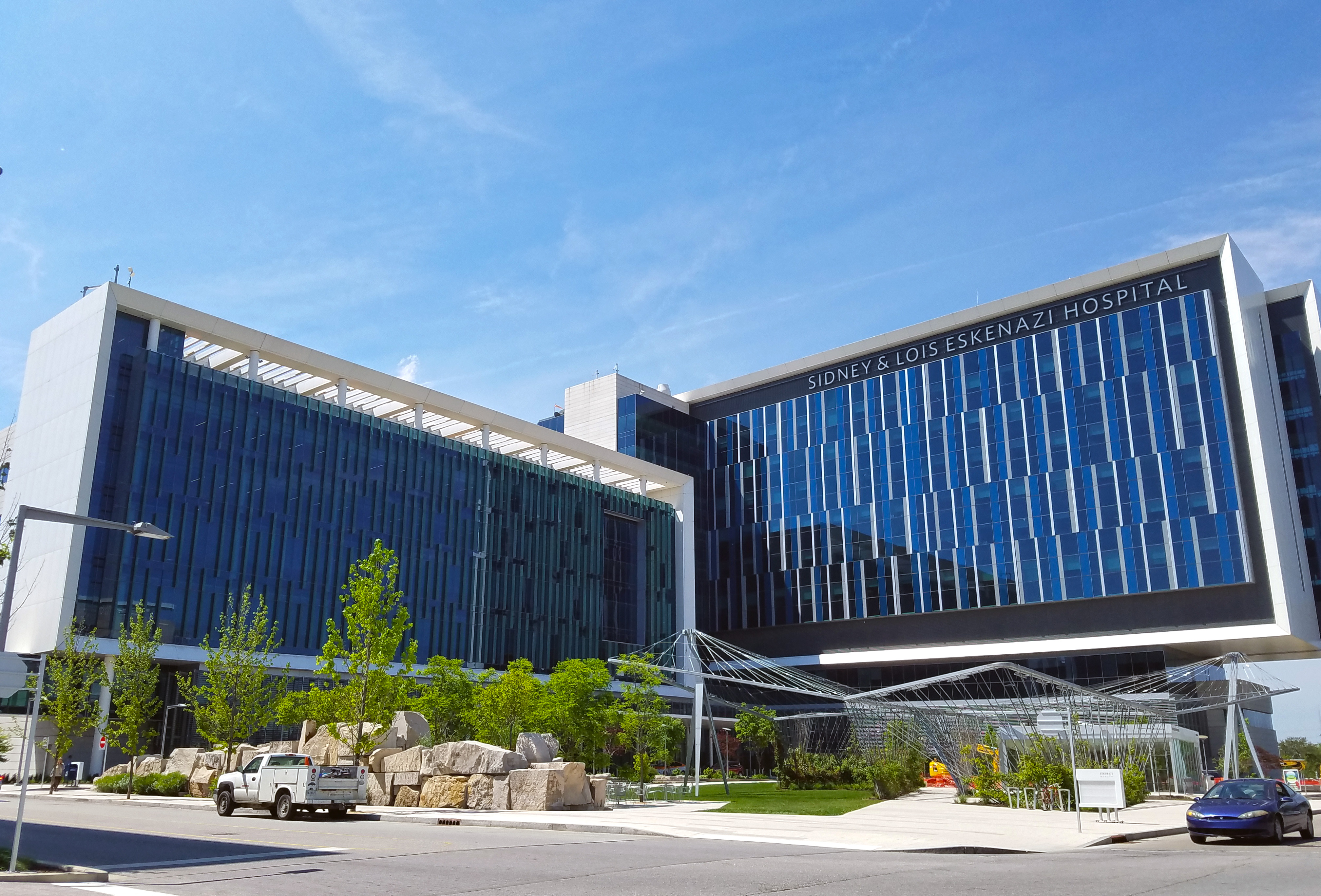 The Sidney and Lois Eskenazi Hospital is pictured at Eskenazi Avenue and Dr. Harvey Middleton Way in Indianapolis, Indiana, USA. The medical center opened in 2013 after a $754 million project to replace the antiquated Wishard Memorial Hospital.